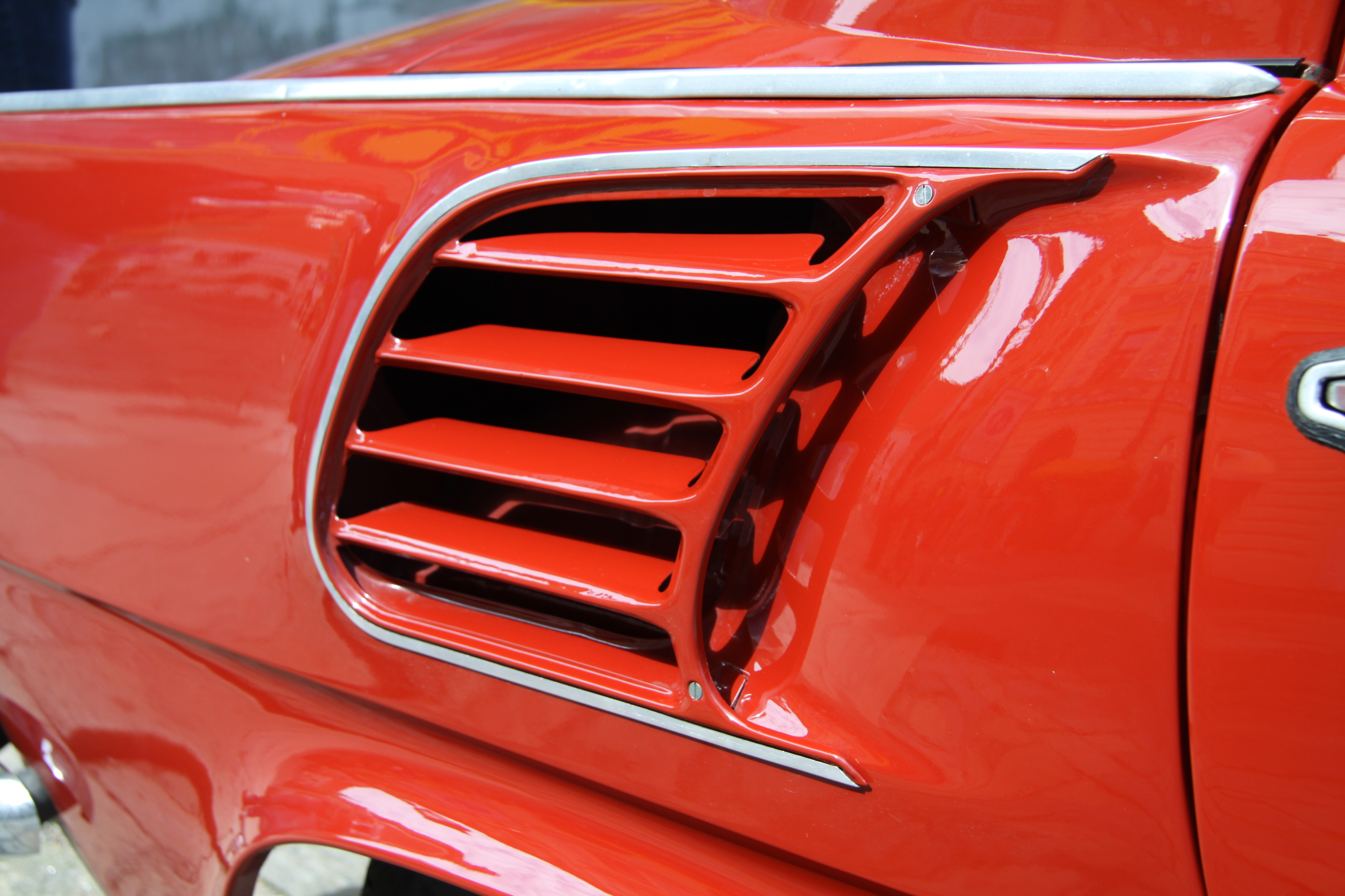 Detail of red Škoda 1000 MB car during car-veterane parede in Písek, part of "Dotkni se Písku" - town celebration, Písek, Czech Republic